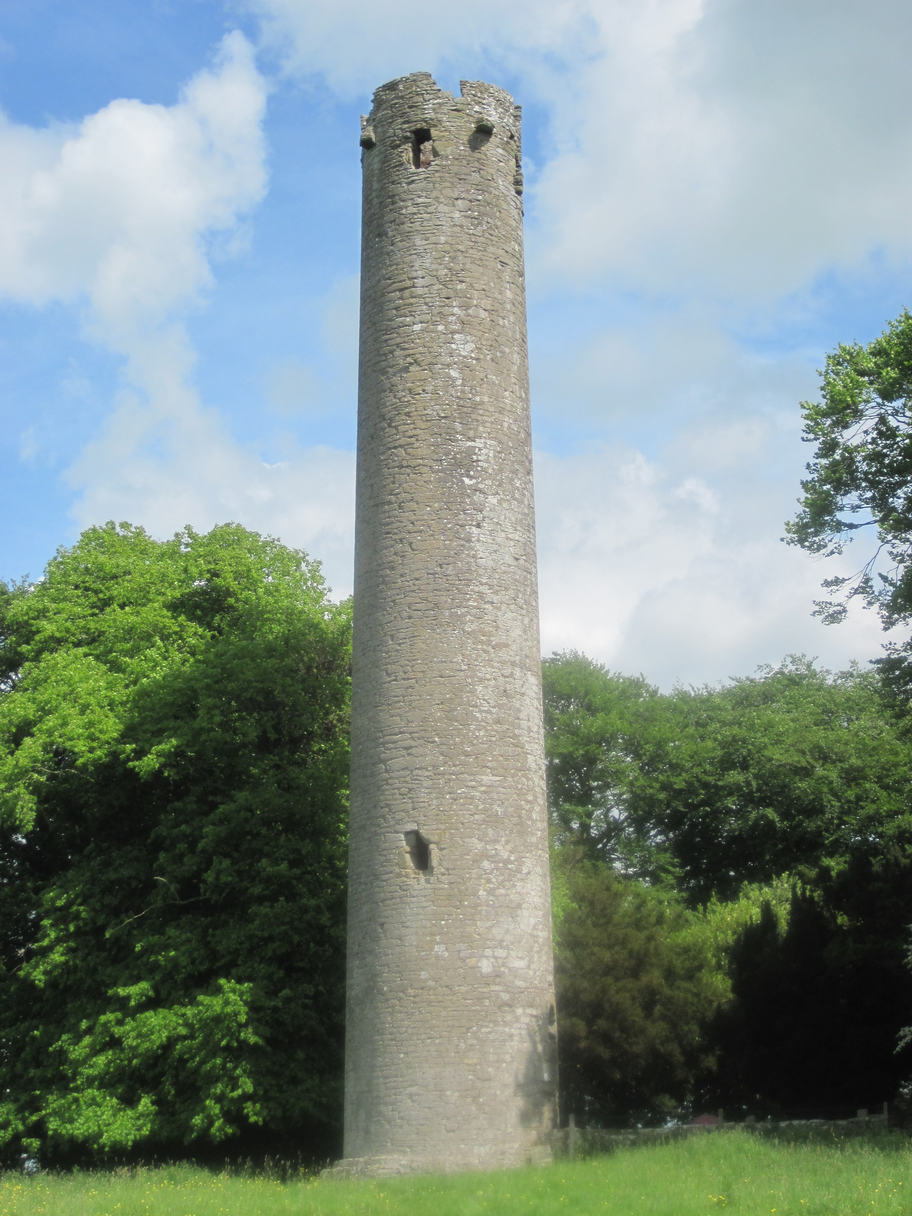 The Round Tower at Kilree Church, Co. Kilkenny